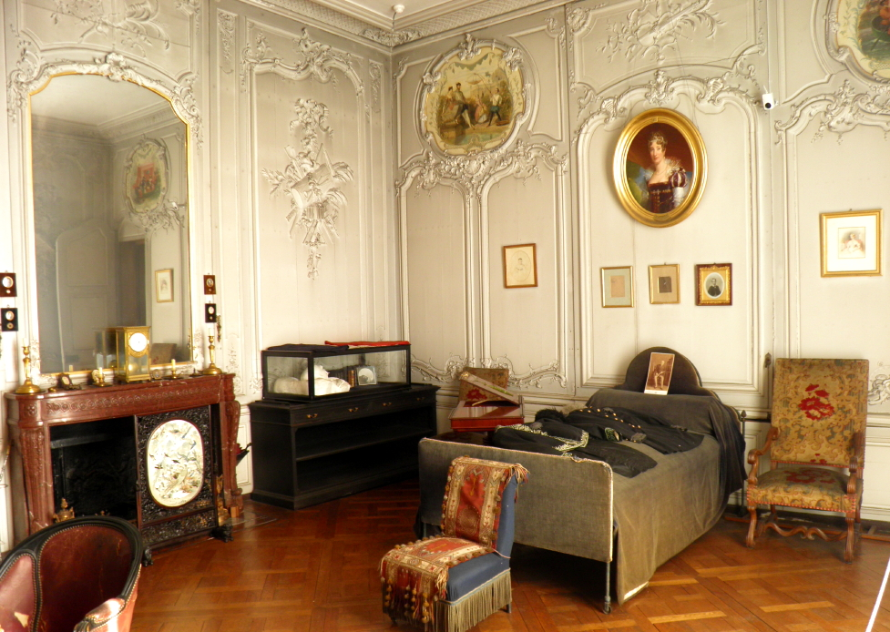 Duke Room. Petits appartements, Château de Chantilly. Oise France.